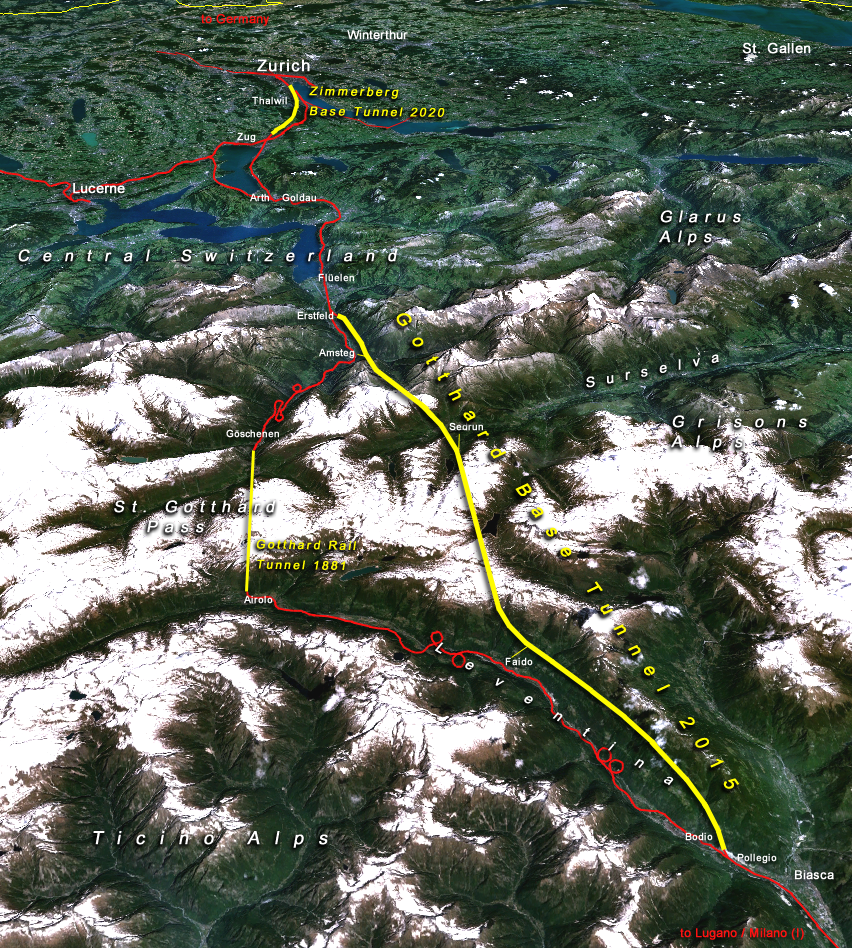 Situation of the northern part of the Gotthard axis as part of the New Railway Link through the Alps NRLA / Alptransit project in Switzerland with Gotthard and Zimmerberg base tunnels (yellow: major tunnels, red: existing main tracks, numbers: year of completion)